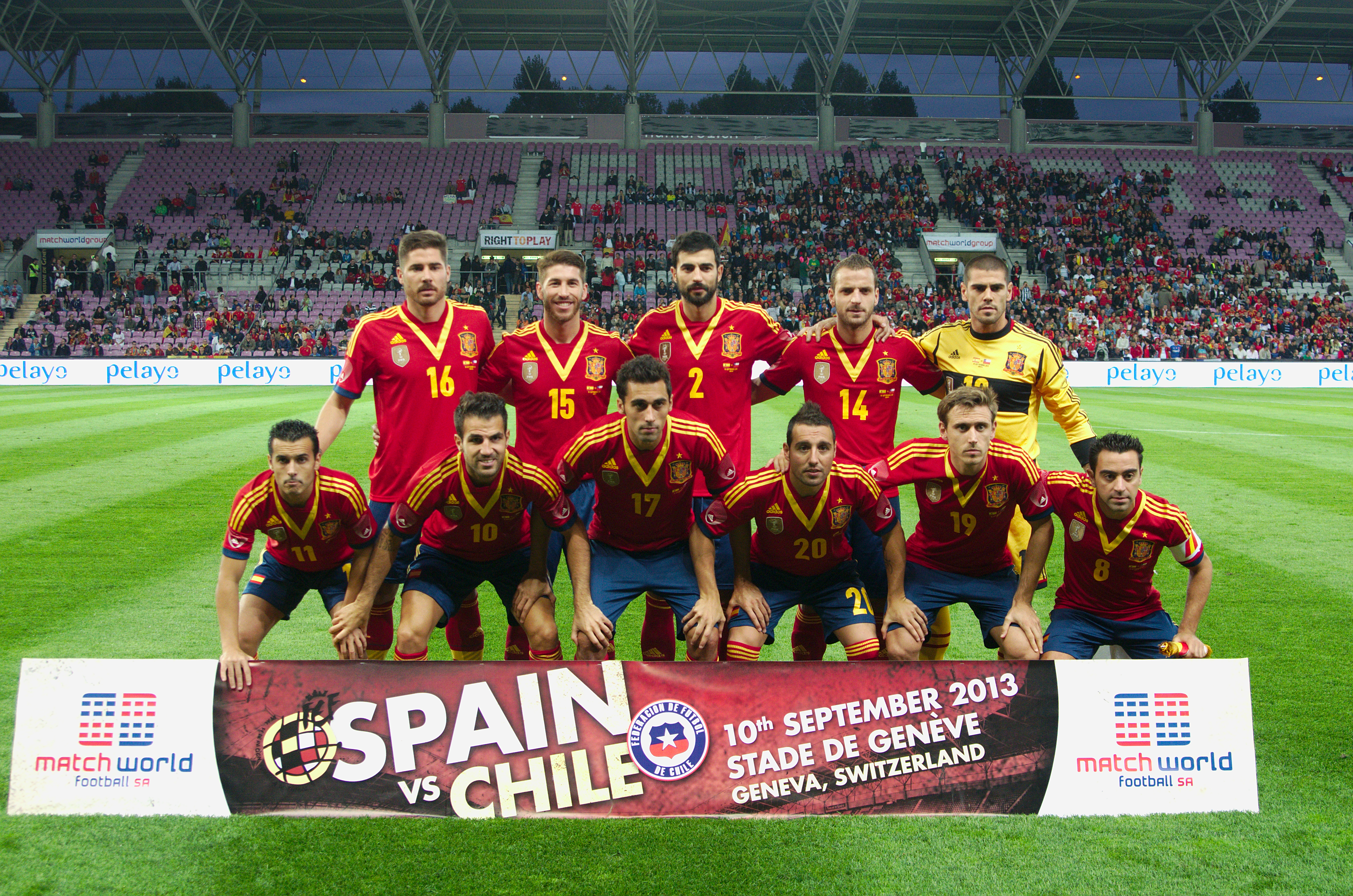 Spain - Chile - 10-09-2013 - Geneva - Spain team